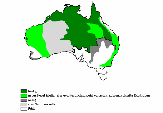 sharper map of dingo distribution after Felimg